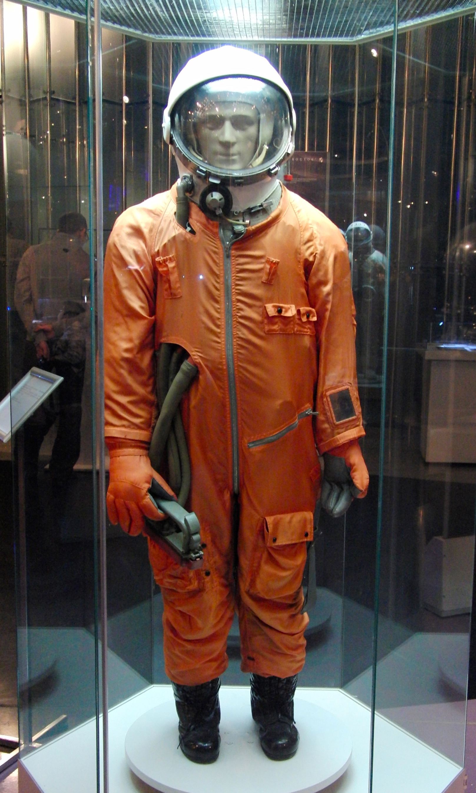 Spacesuit at the Memorial Museum of Space Exploration in Moscow, Russia.